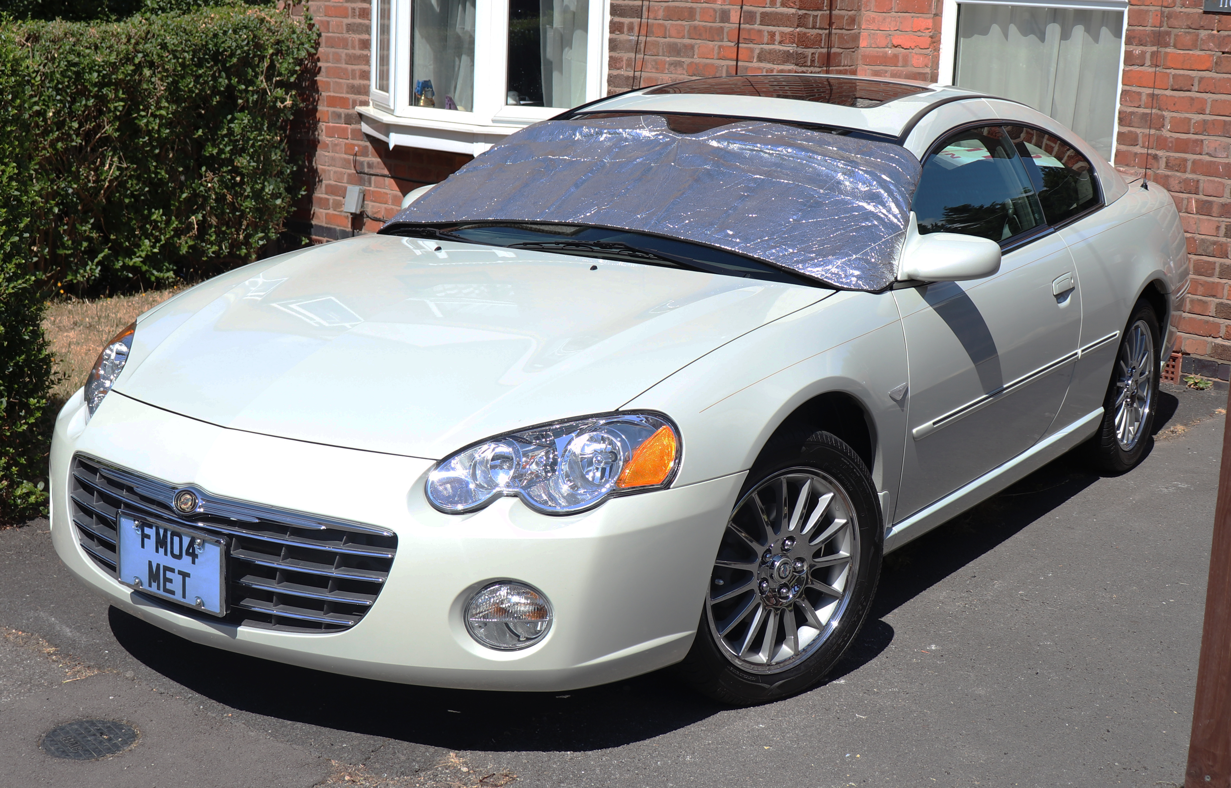 2004 Chrysler Sebring Coupe 3.0 Taken in Whitnash